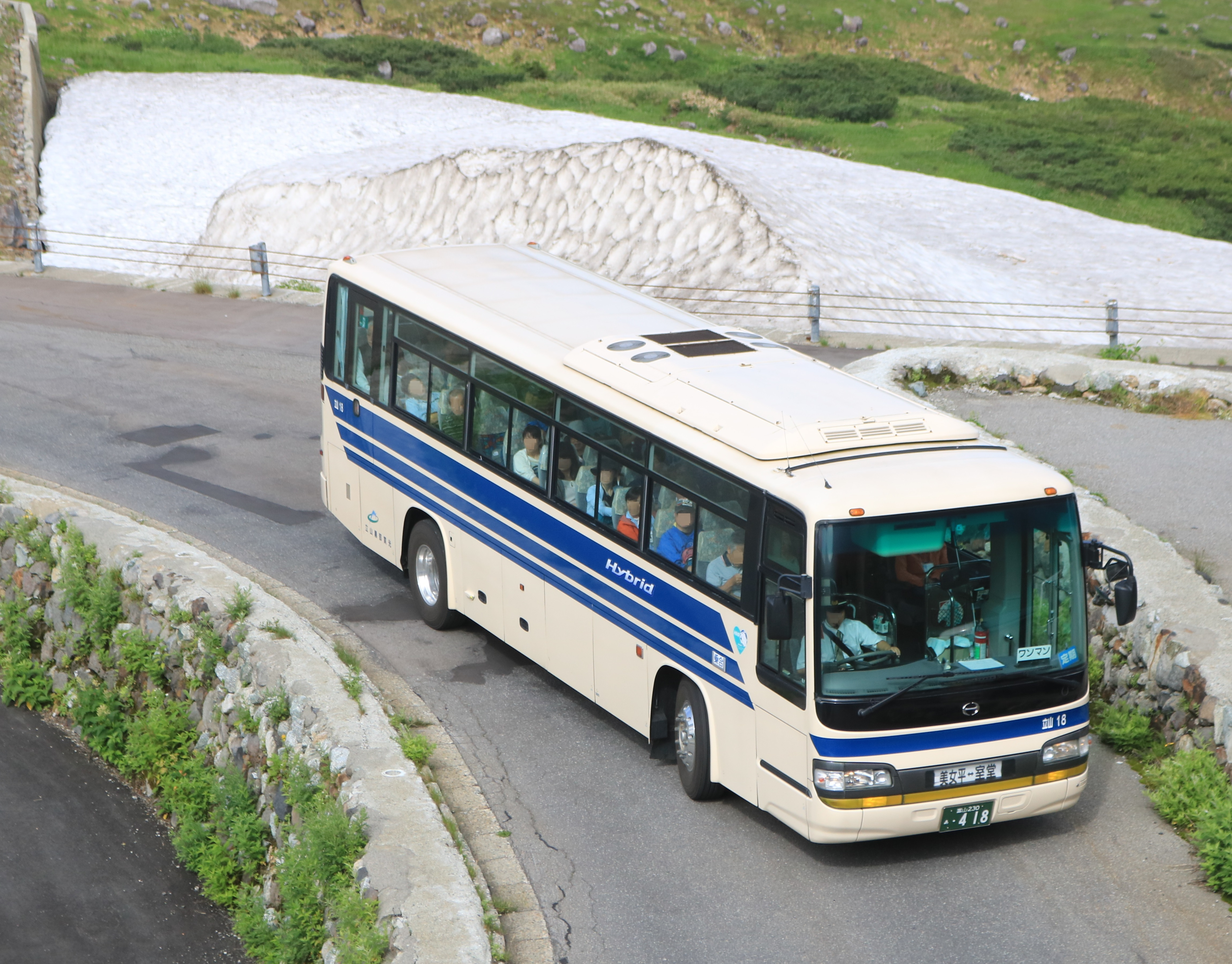 Tateyama Highland Bus (Hino Selega Hybrid) at Murodo Station of Tateyama Kurobe Alpine Route in Tateyama, Toyama prefecture, Japan.